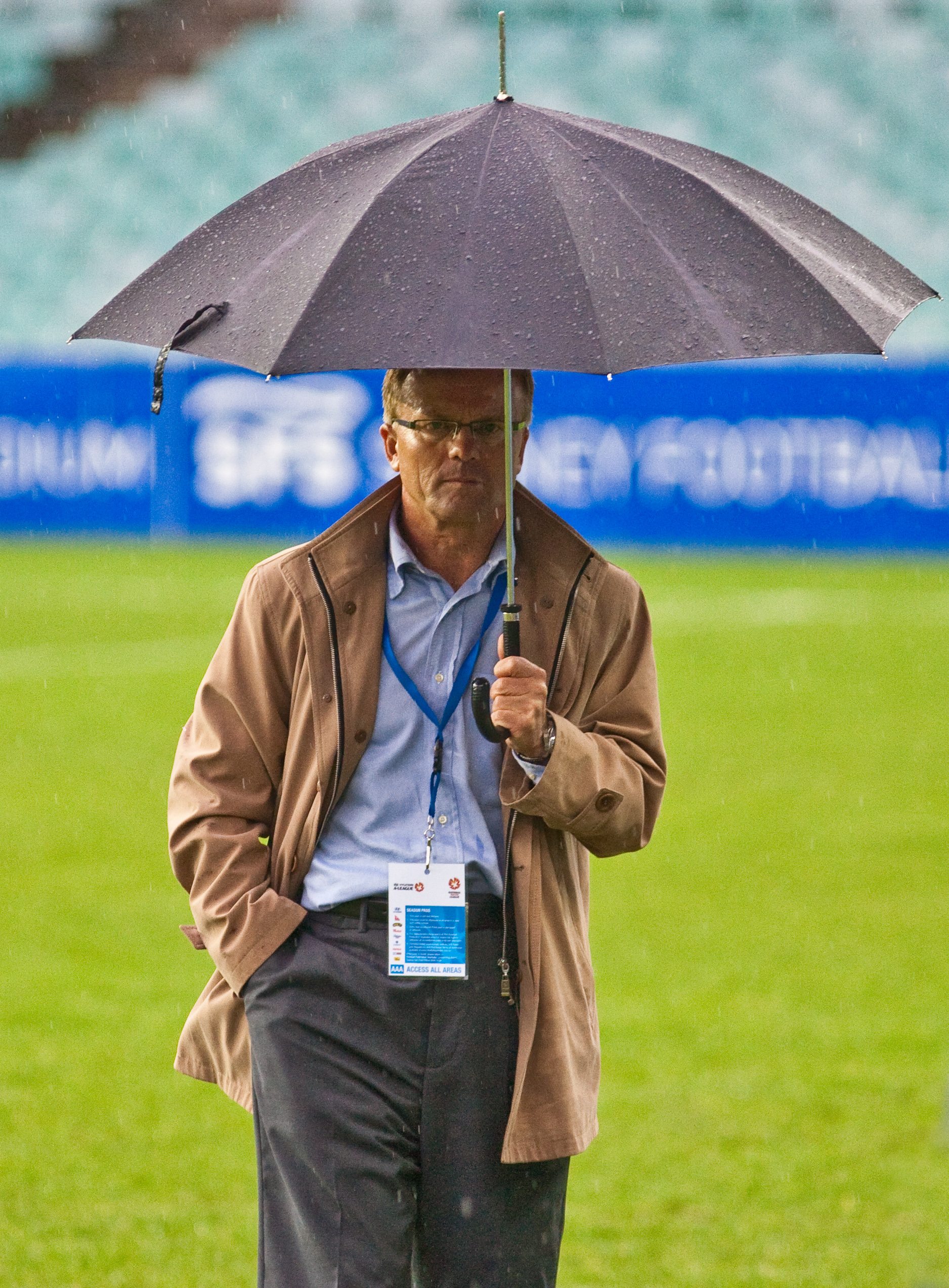 Branko Culina at a pre-season game between Newcastle Jets and Sydney FC.